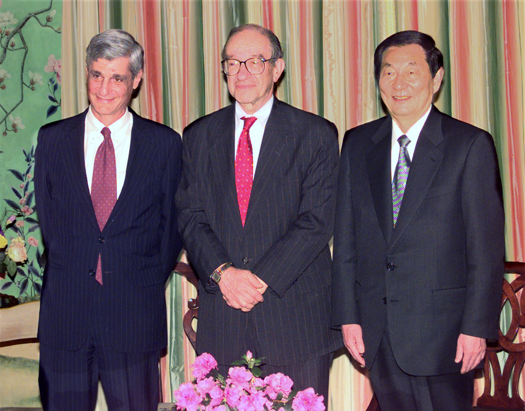 Secretary of Treasury Robert Rubin, Mr. Alan Greenspan and the Chinese Premier Zhu Rongji pose for press photographers.